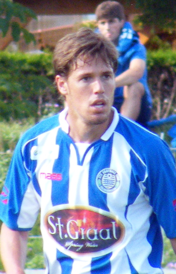 Manu Hervás association football player.